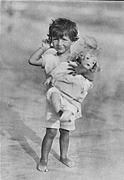 Title Portrait photograph of Patricia Ziegfeld Contributor Names Genthe, Arnold, 1869-1942, photographer Created / Published between 1919 and 1942; from a negative taken 1919 Aug. Subject Headings - Ziegfeld, Patricia,--1916- - Children. Format Headings Lantern slides. Portrait photographs. Notes - Title devised. - Purchase; Genthe Estate; 1942 or 1943. - ID: LC-G412-2988-003; 1919 Aug. Medium 1 slide : lantern ; 4 x 5 in. or smaller. Call Number/Physical Location LC-G4085- 0424 [P&P]